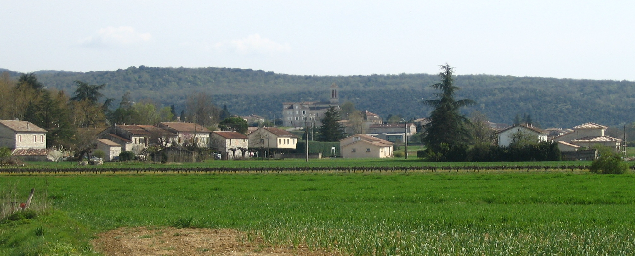 Beualieau in the Ardèche region, France